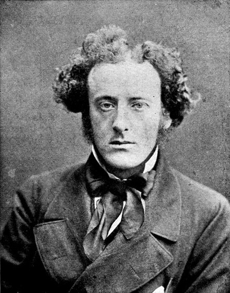 Photograph of Sir John Everett Millais Bt PRA (1829-96)